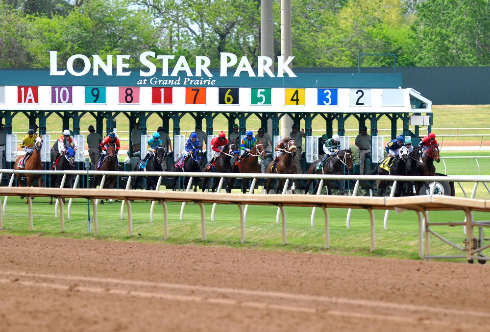 Horses starting out of the gate at Lone Star Park, April 10, 2010